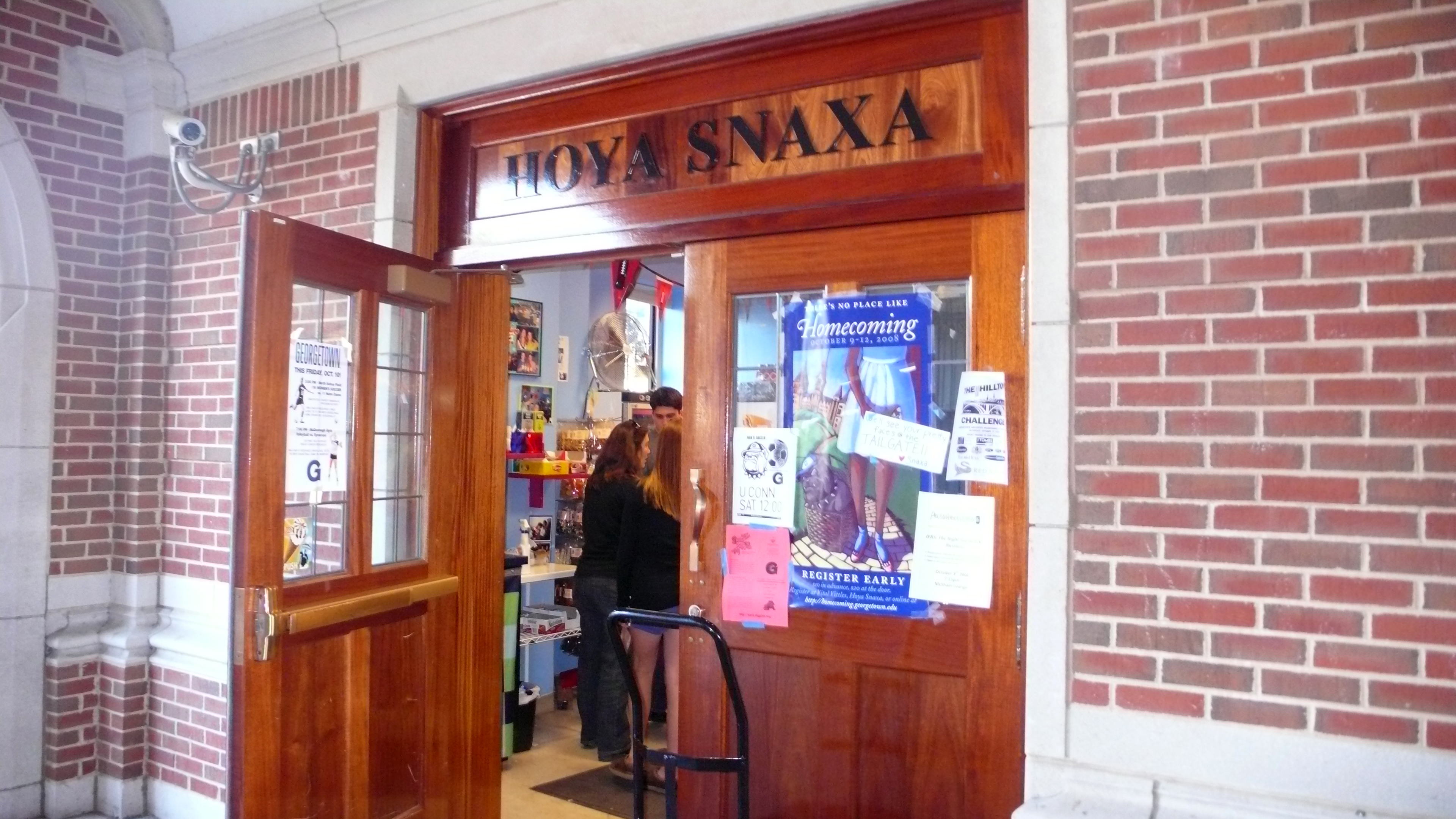 Hoya Snaxa, the student run convenience store in the Southwest Quadrangle on Georgetown University's main campus in Washington, D.C.